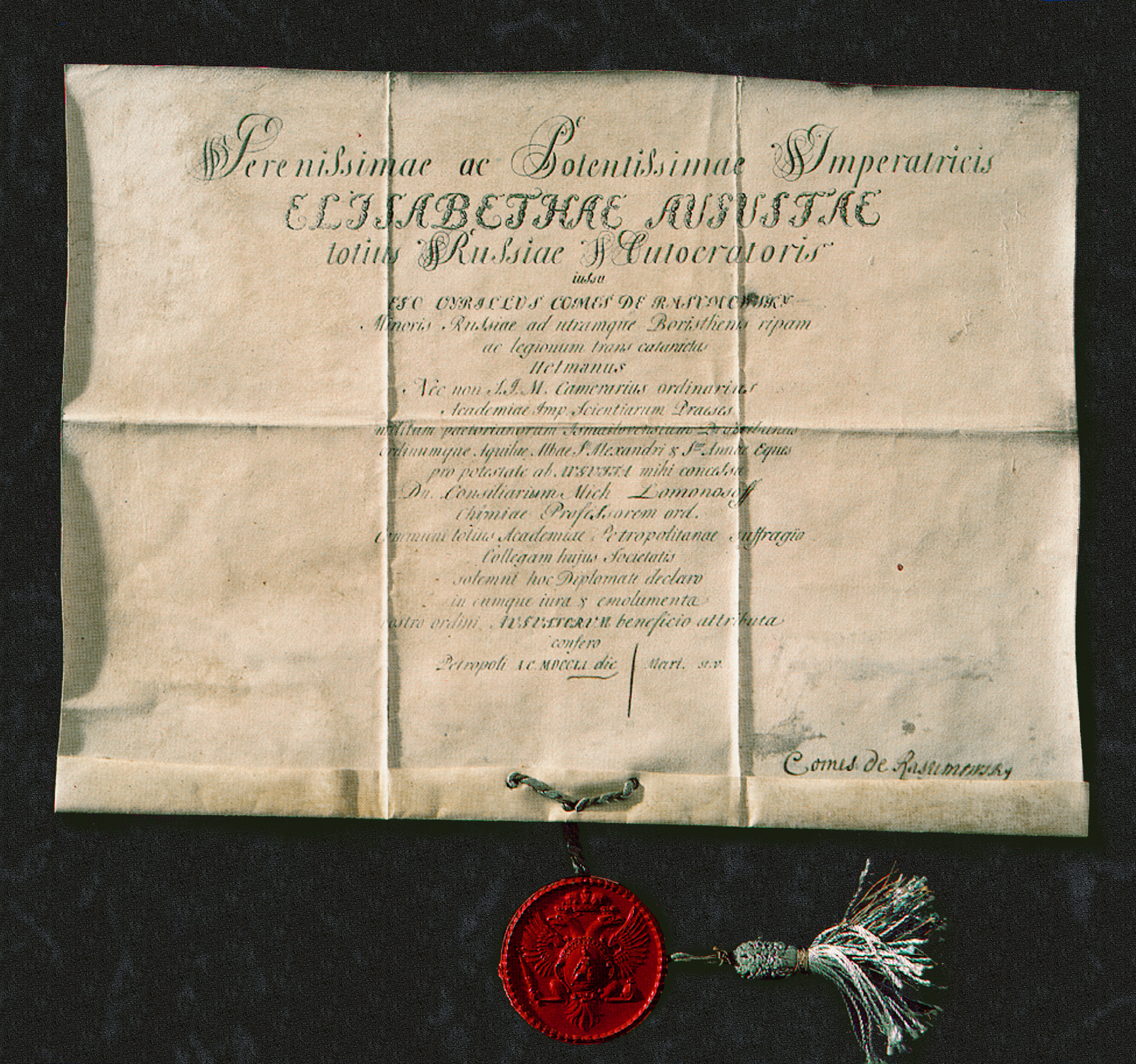 Diplom of professor M. V. Lomonosov. Issued in 1751.